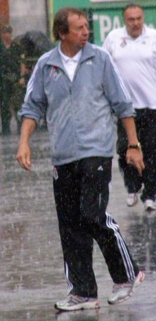 Yuri Semin as head coach of FC Lokomotiv Moscow